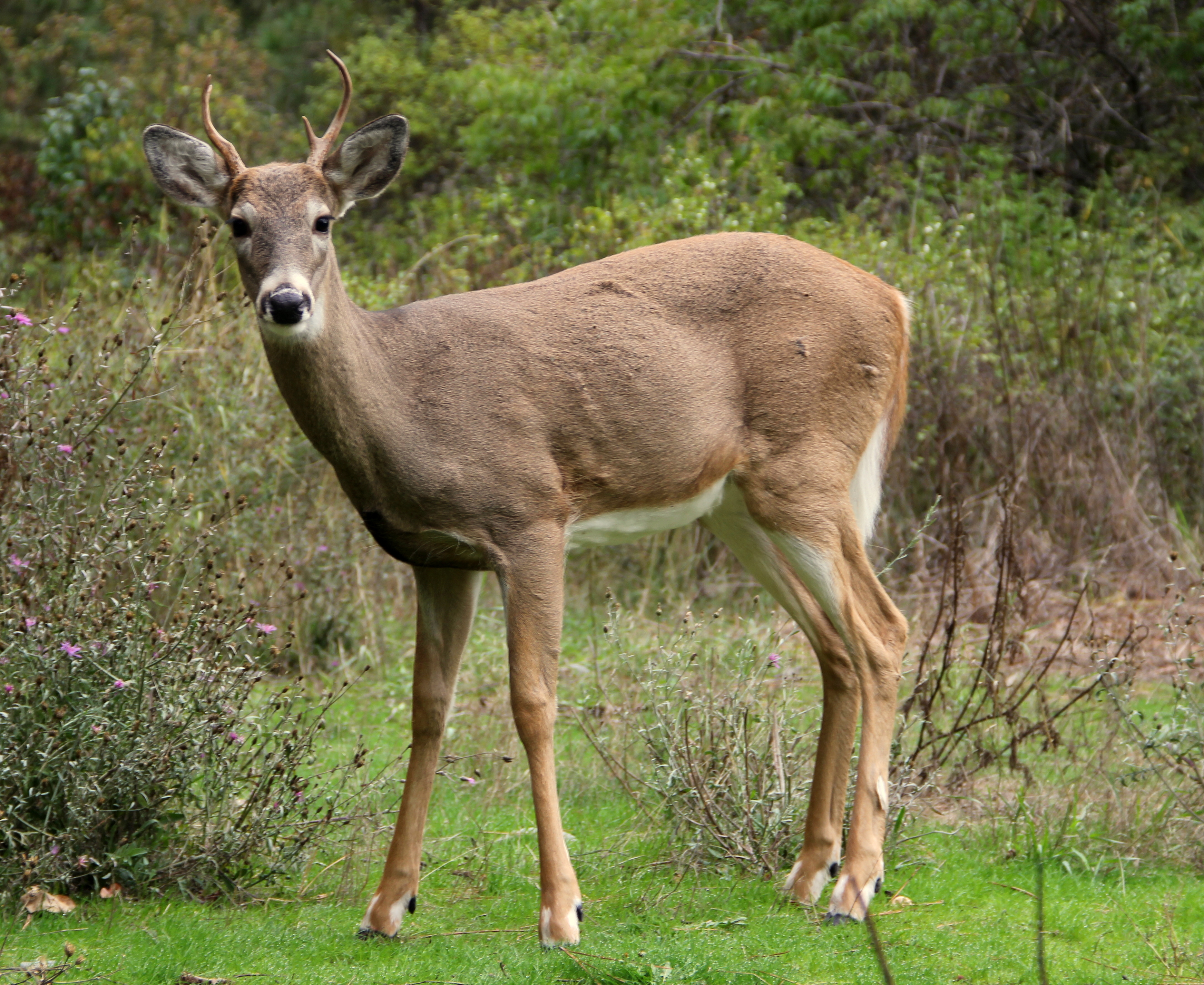 Young white-tailed deer (Odocoileus Virginianus) male seen at Greenough Park, Missoula, Montana.